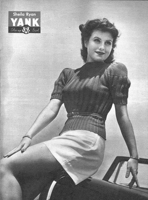 Pin-up photo of Sheila Ryan for an issue of Yank, the Army Weekly, a weekly U.S. Army magazine fully staffed by enlisted men.